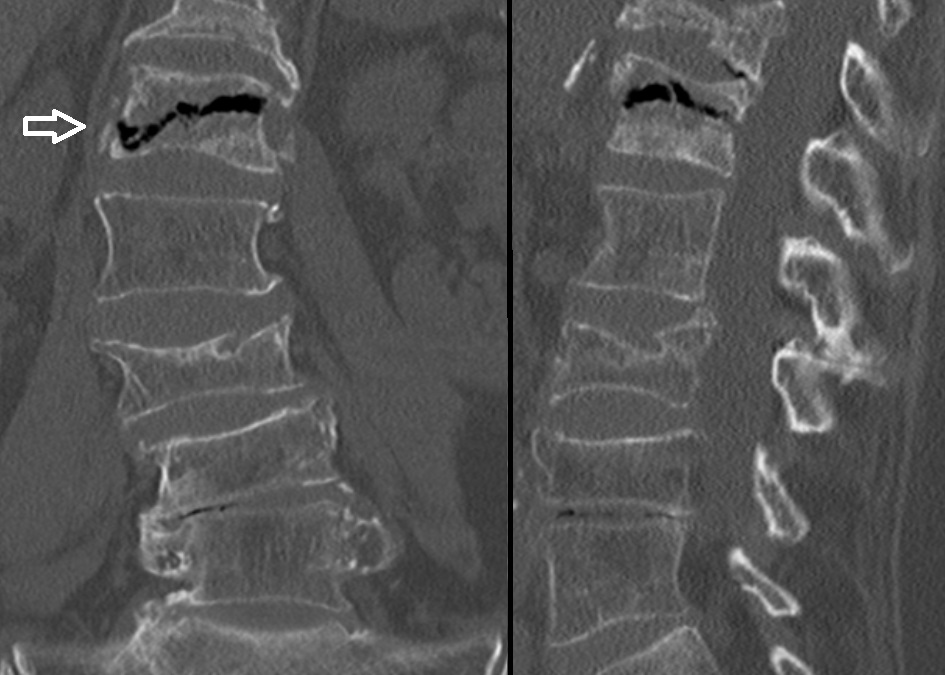 Coronal and sagittal planes of a CT scan of a 78 year old woman, showing the intravertebral vacuum cleft sign.